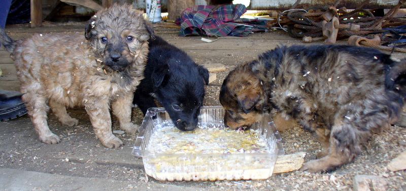 Dogs in Bosnia